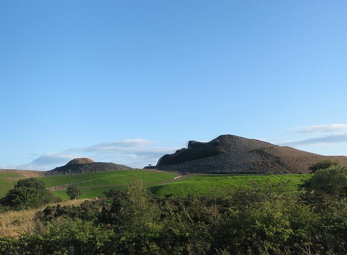 Northumberlandia land sculpture under construction near Cramlington, Northumberland, northern England.